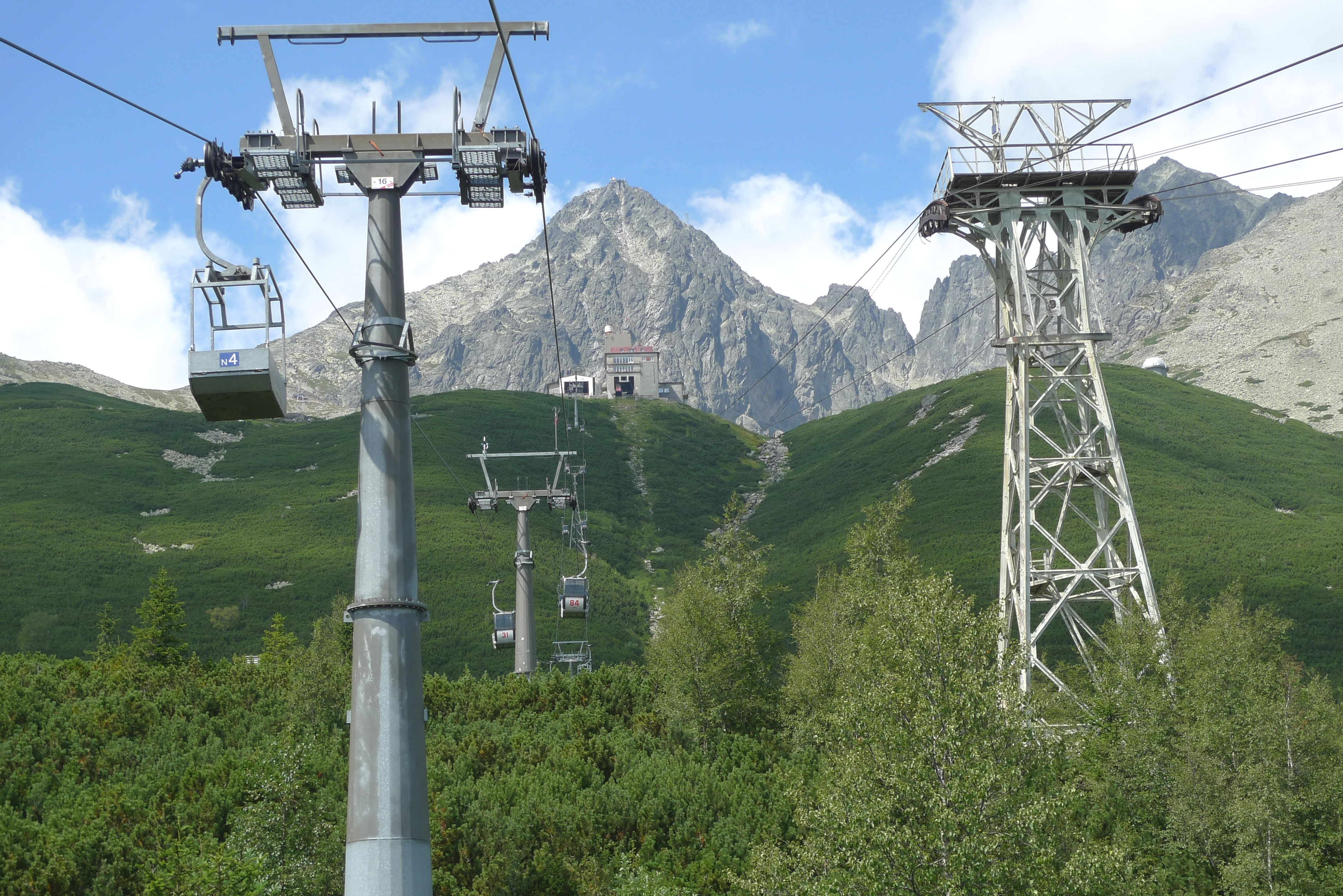 Aerial tramway and gondola lift Tatranská Lomnica–Skalnaté pleso